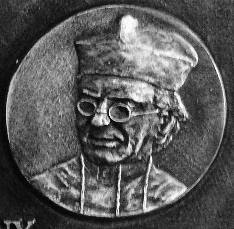 Jan Berthier